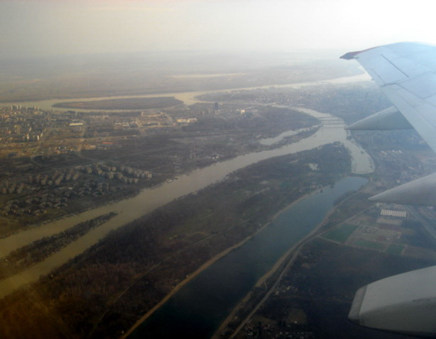 A photo I made.